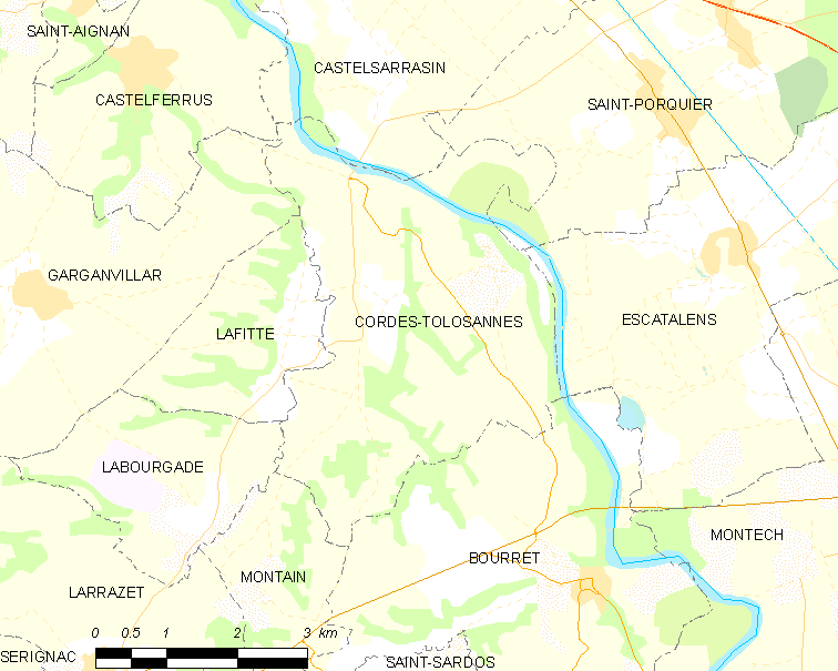 Map of French municipality Cordes-Tolosannes